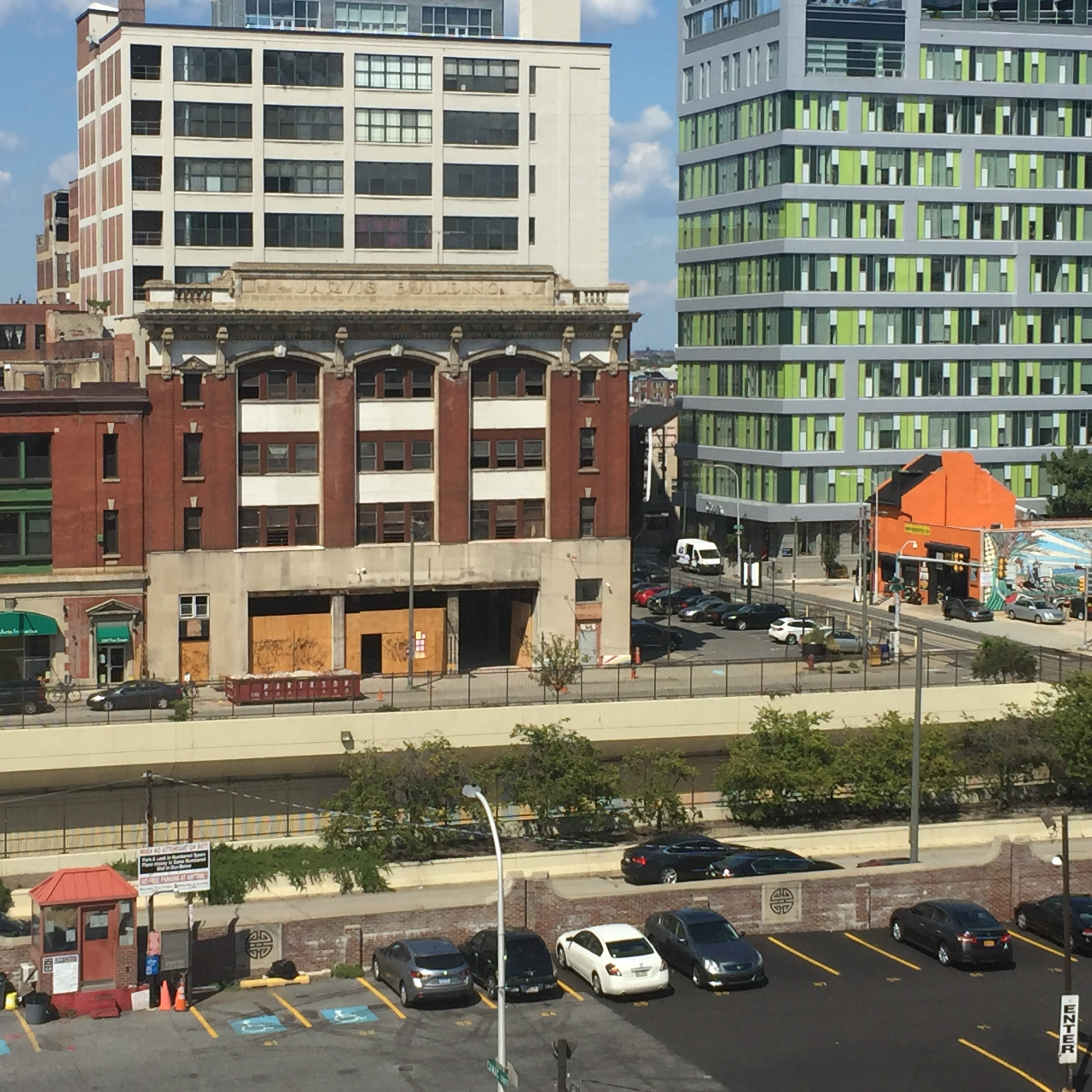 Vine Street from Camac Street building